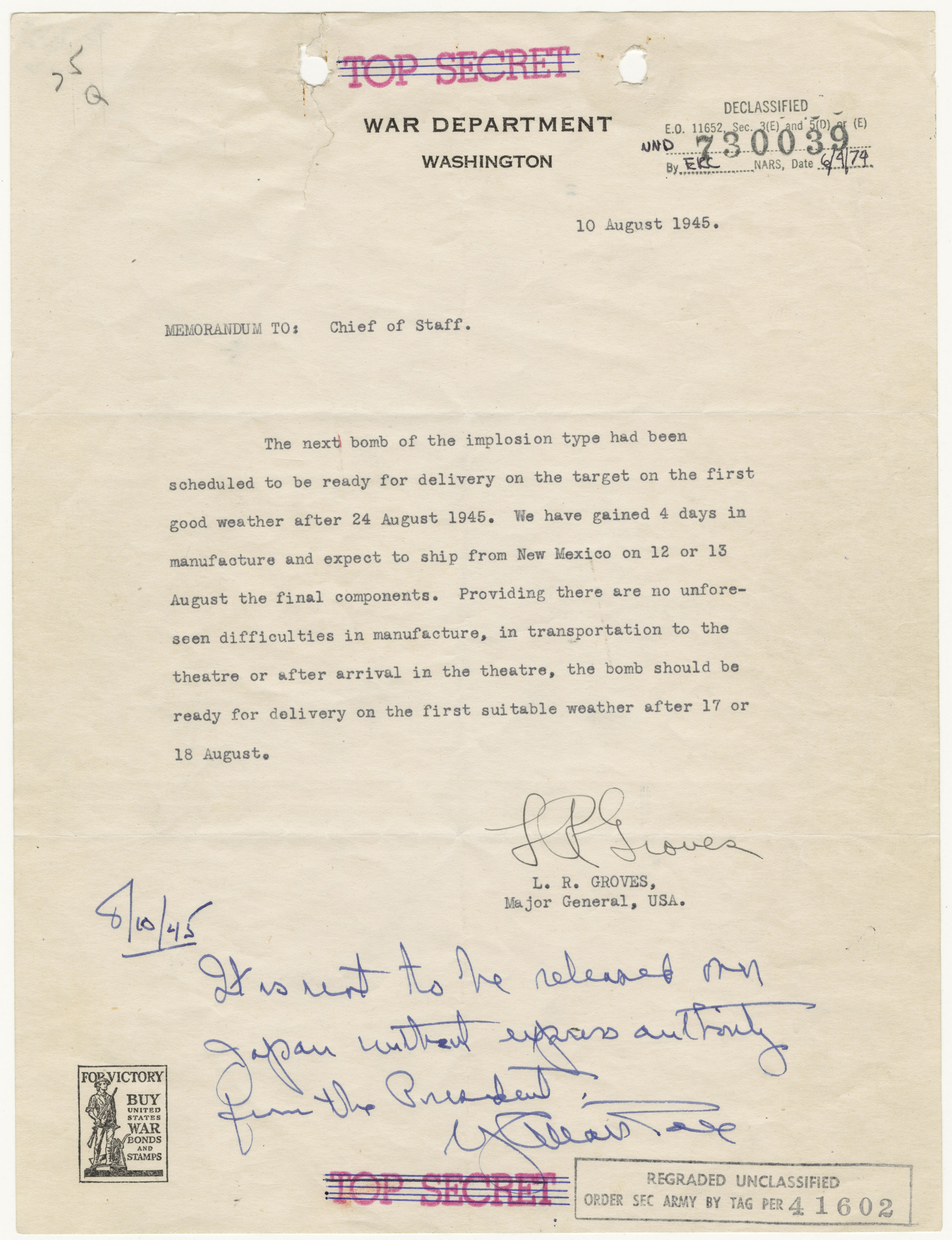 Memorandum from Major General Leslie Groves to Army Chief of Staff George Marshall, 08/10/1945 MED: Office of the Commanding General; General Correspondence, 1942-46 0077 HMS Identifier:HD1-87631572 Rediscovery Identifier: 03525